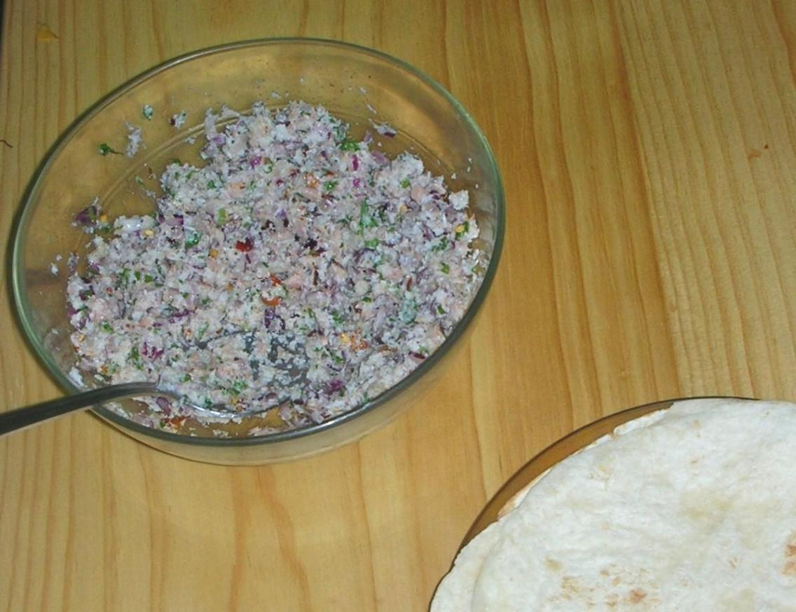 Mas huni with chapati (roshi)